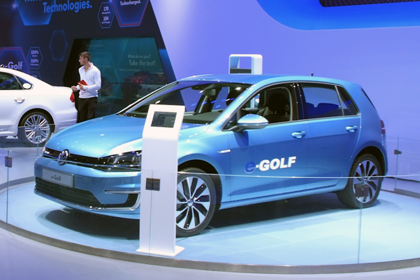 Volkswagen e-Golf electric car exhibited at the 2013 Greater Los Angeles Auto Show.